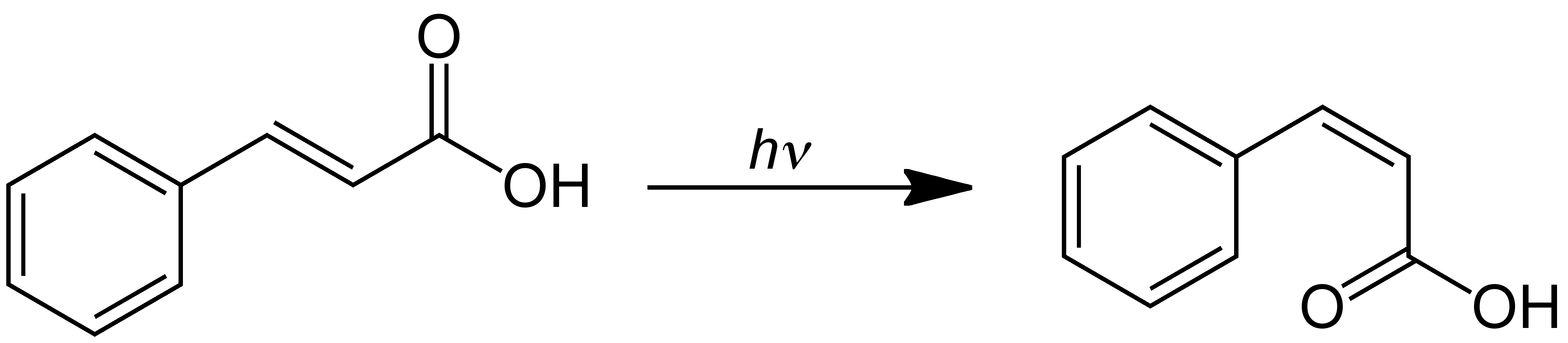 Cinnamic acid photochemical isomerization